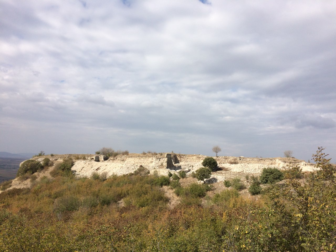 Petrich Kale